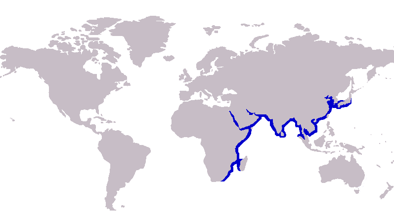 Distribution of longfin trevally, Carangoides armatus using map based on GDFL image